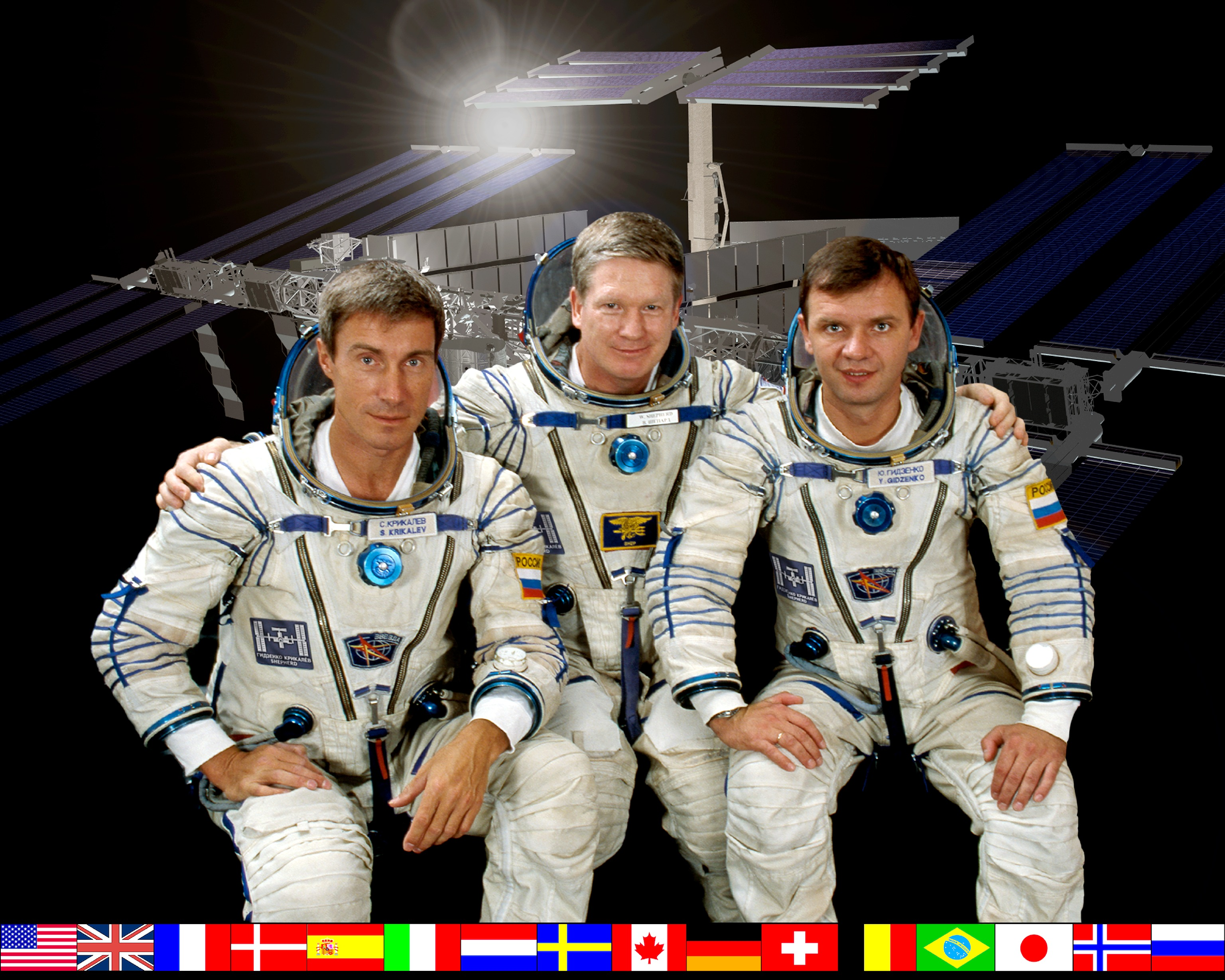 Crew of ISS Expedition 1 launched with Soyuz TM-31 ISS Expedition One Commander William M. (Bill) Shepherd (center) is flanked by Soyuz Commander Yuri P. Gidzenko (right) and Flight Engineer Sergei K. Krikalev (left) in this crew photograph, taken during a break in training in Russia. The three, posed in front of a rendition of the International Space Station, are wearing the Sokol space suits like those they will don for their Soyuz-provided trip to ISS later this month. National flags representing all the international partners run along the bottom of the portrait.